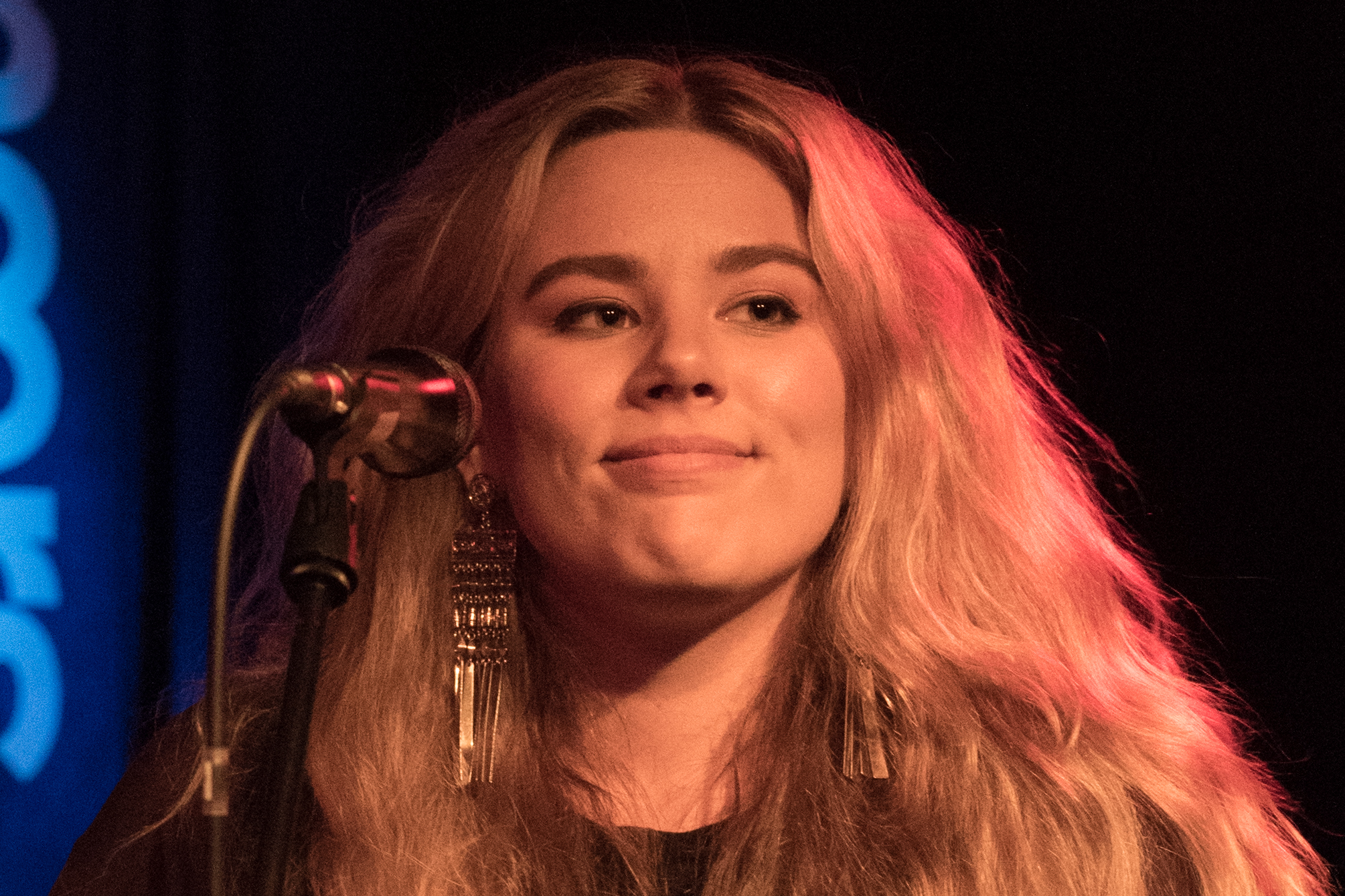 Norwegian jazz musician Natalie Sandtorv at the Moers Festival 2016